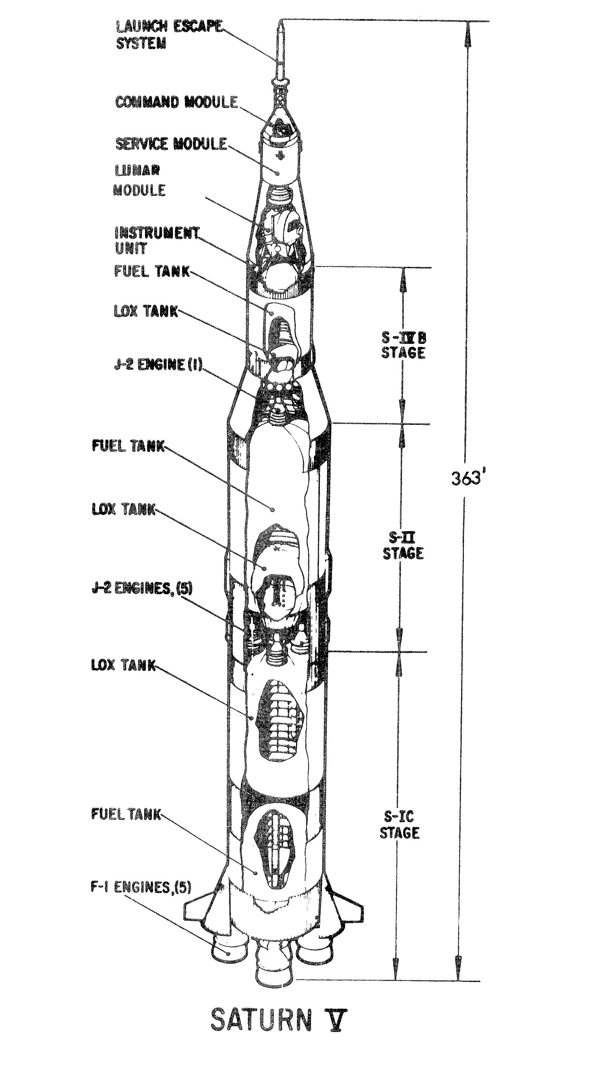 Saturn V diagram from Apollo 6 Press Kit